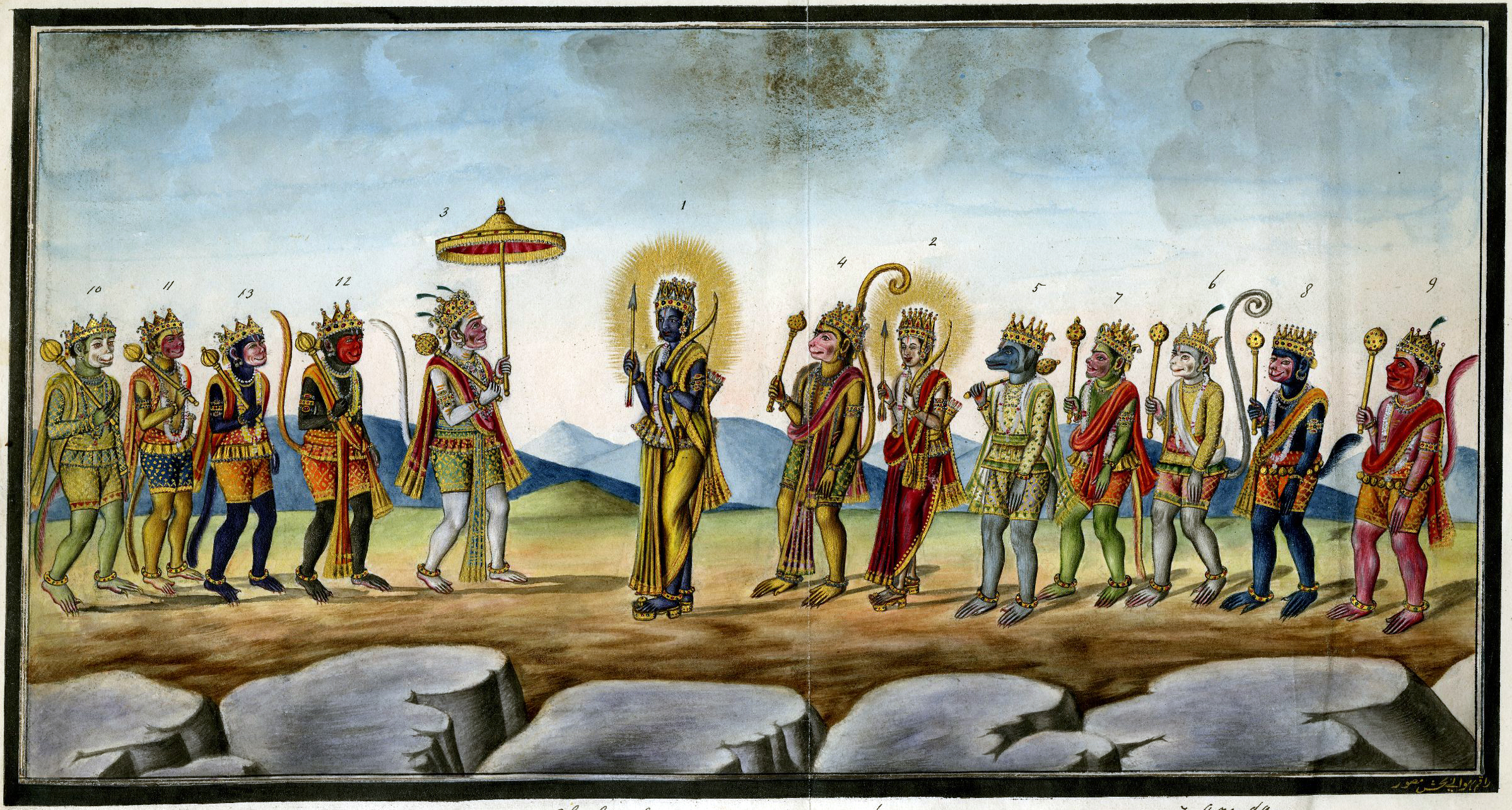 "Rāmacandra standing in a rocky landscape with Laksmana and the bear and monkey chiefs of his army" "The Chief's of Rama-Chandra's army. 1. Rama Chandra. 2. Lacshman. 3. King Sugriva. 4. Hoonoman. 5. Jambuvan. 6. Angada. 7. Arunda. 8. Nila. 9. Samrambha. 10. Nala. 11. Vanara. 12. Durvinda. 13. Rambha."